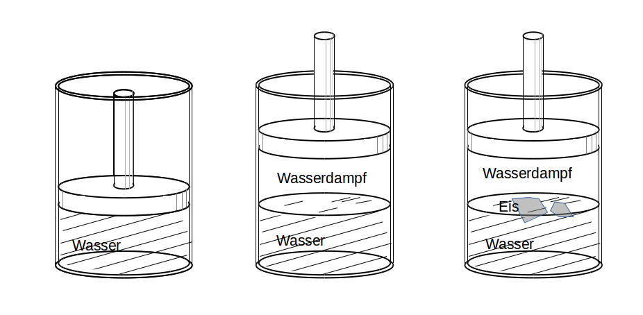 A Thermodynamic System of water in three different equilibrium states